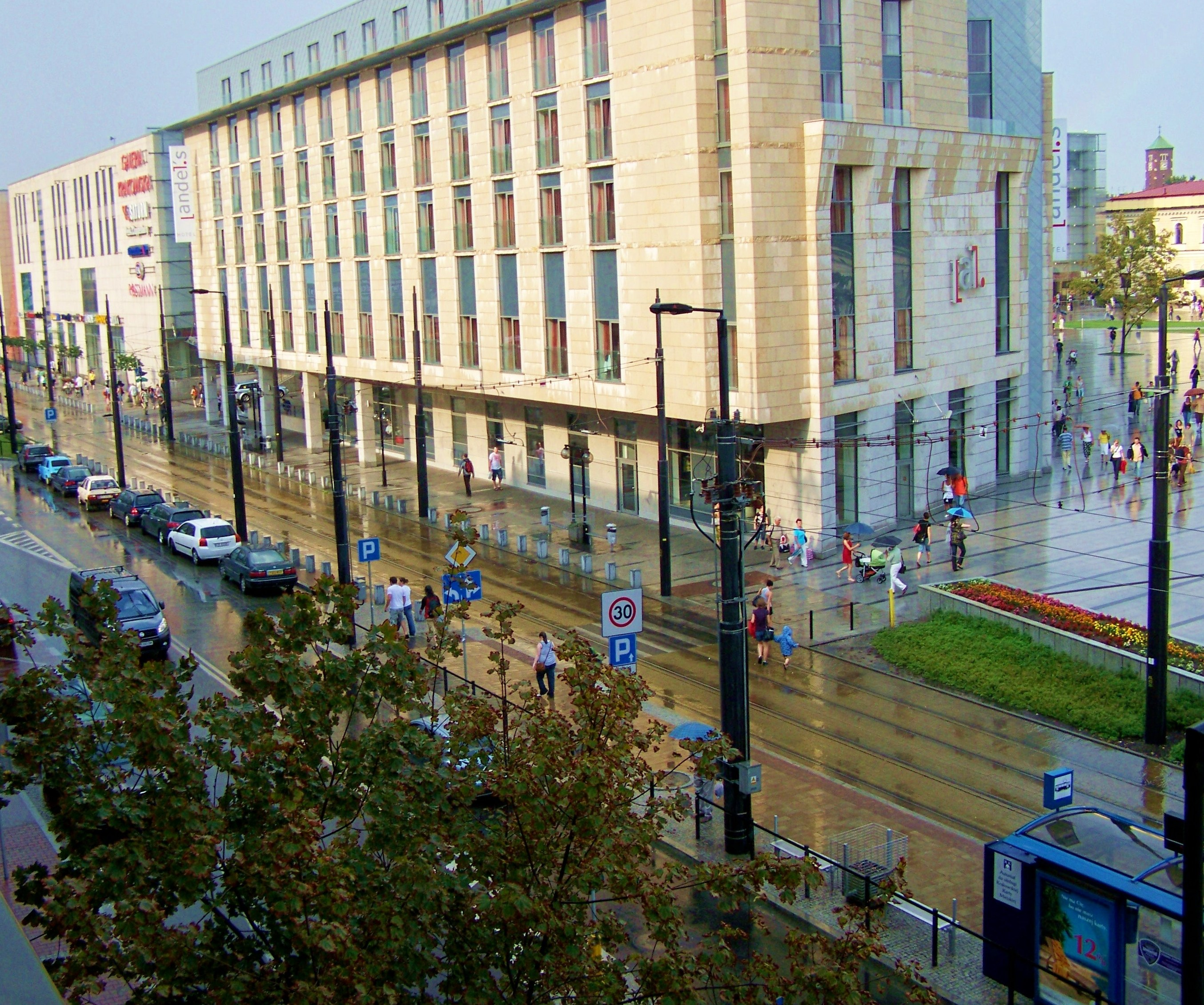 New Development in Front of Kraków Main station: Galeria Krakowska shopping centre and Andel's Hotel.